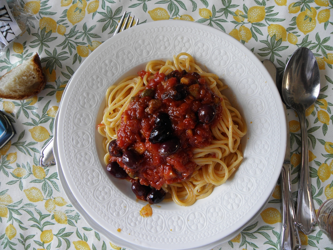 mix